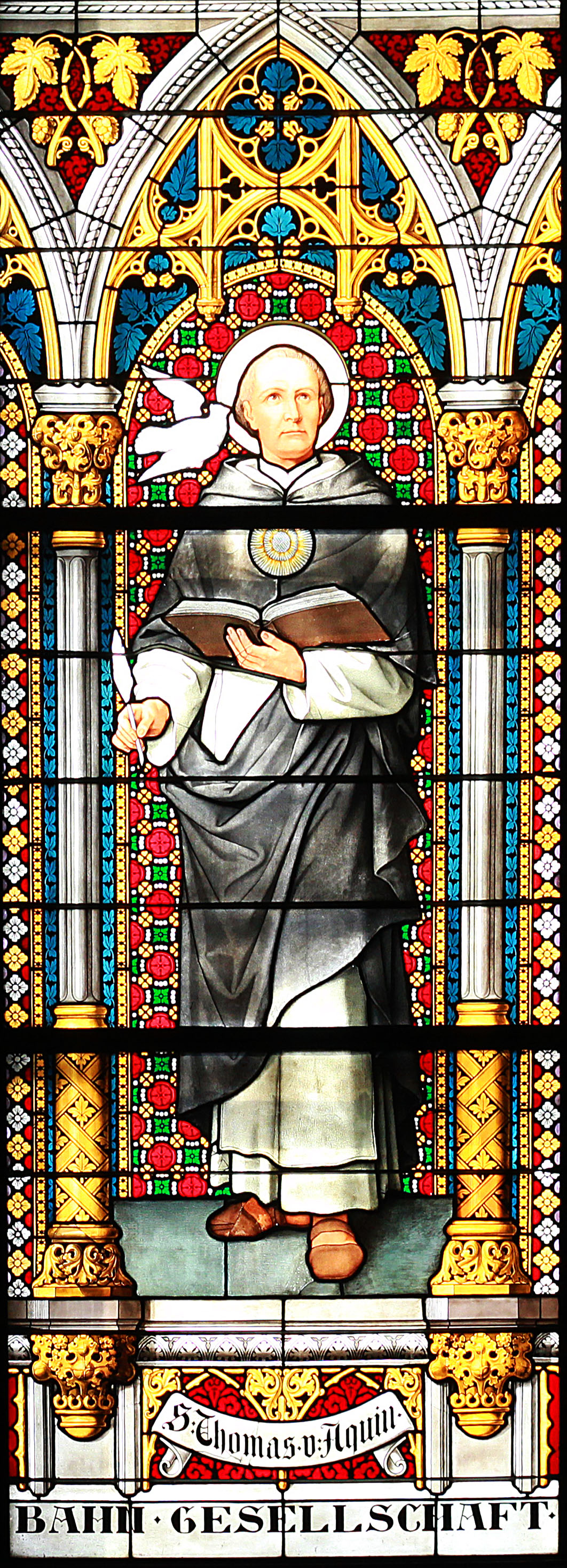 Thomas Aquinas